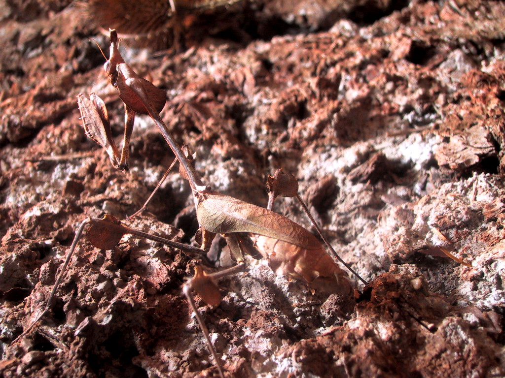 wandering violin mantis, Indian rose mantis (Gongylus gongylodes) at Aquazoo – Loebbecke Museum in Duesseldorf